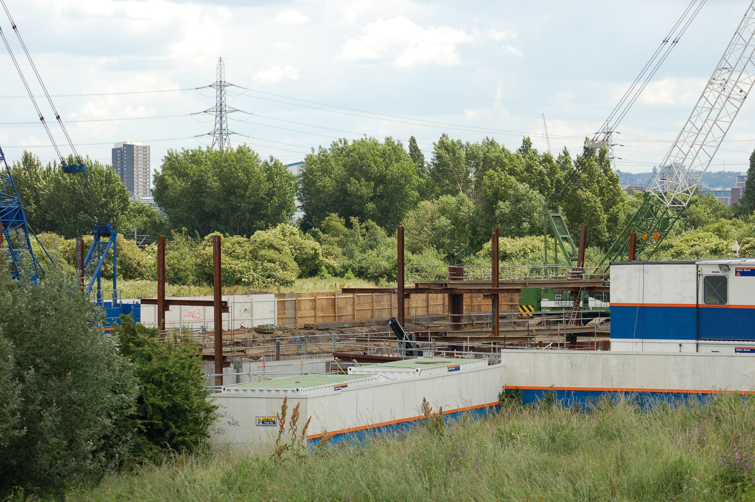 Use freely, please attribute - K B Thompson Three Mills Lock on the Prescott Channel.